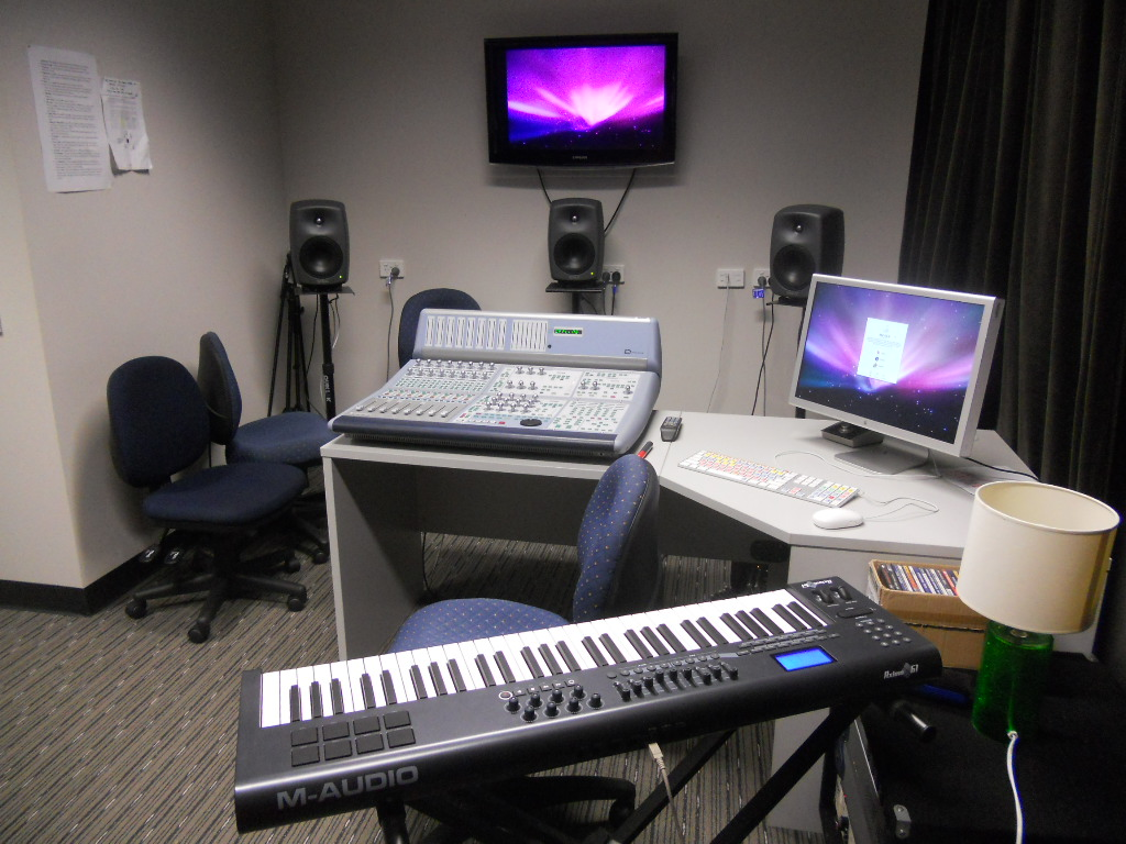 Music Studio